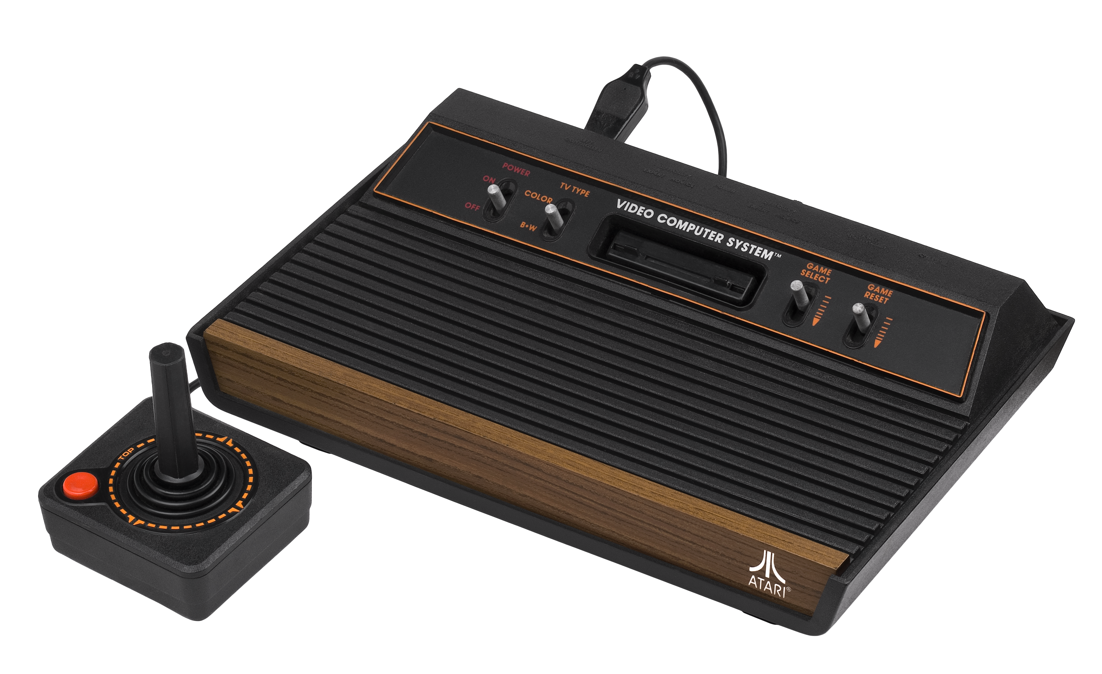 An Atari 2600 four-switch "wood veneer" version, dating from 1980-1982. Shown with standard joystick.